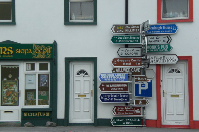 Ballyvaughan Signpost This signpost at the Ballyvaughan road junction is one of the most complex signposts you could find !